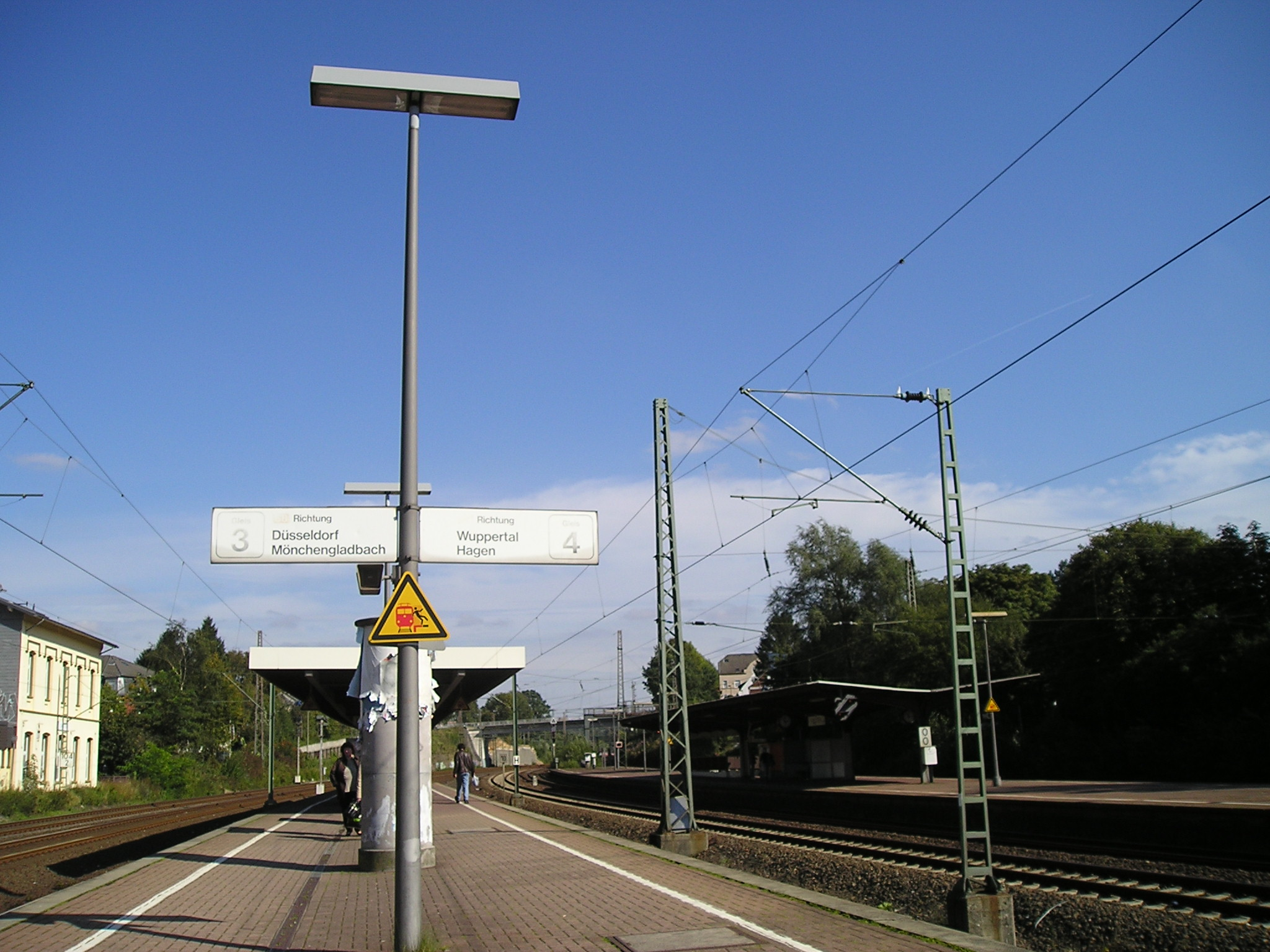 train station in Gruiten